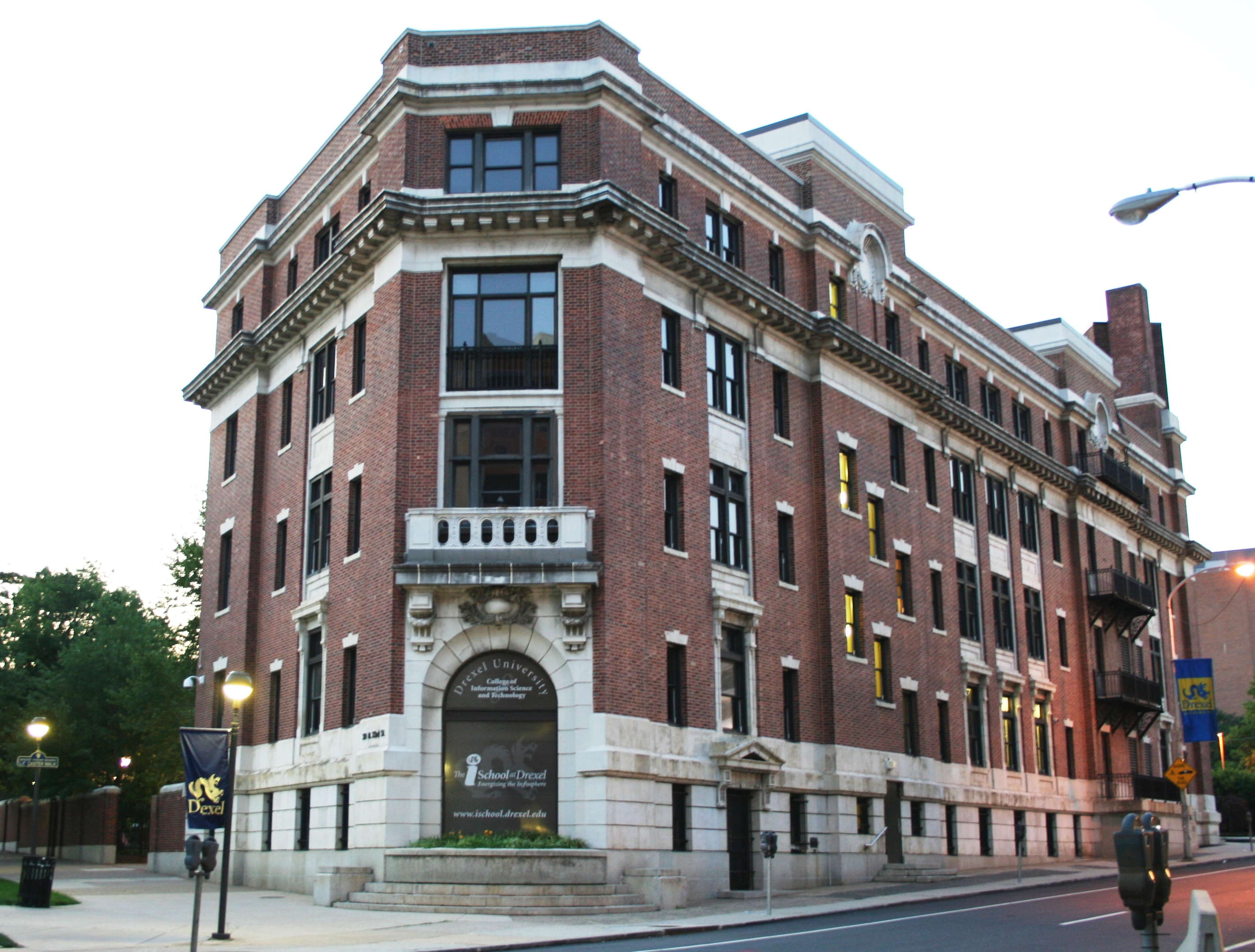 Drexel University College of Information Science and Technology, 33rd Street & Lancaster Avenue, Philadelphia, PA - the iSchool